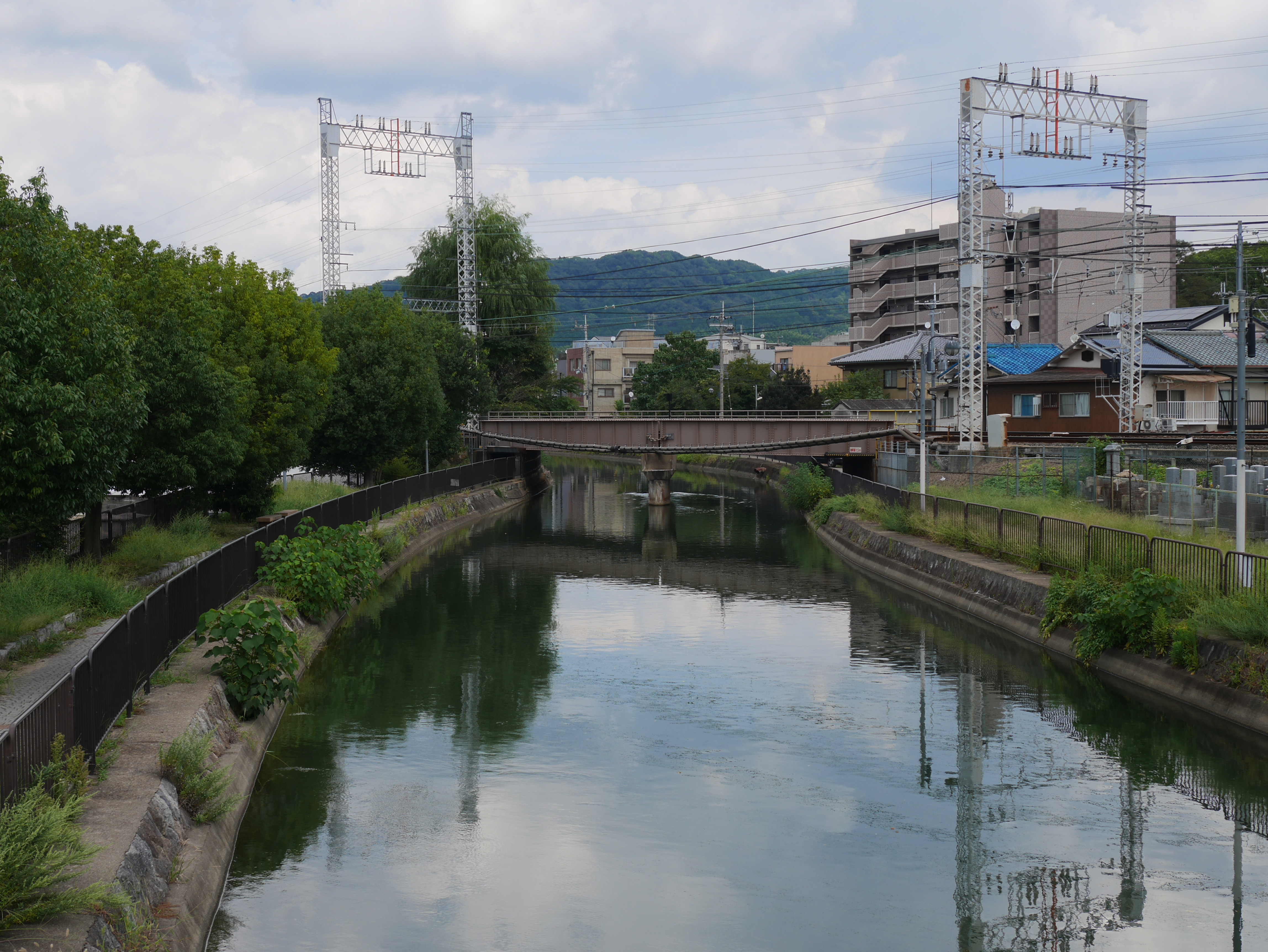 [Kamogawa Canal,September 13,2015] Takadabashi Bridge